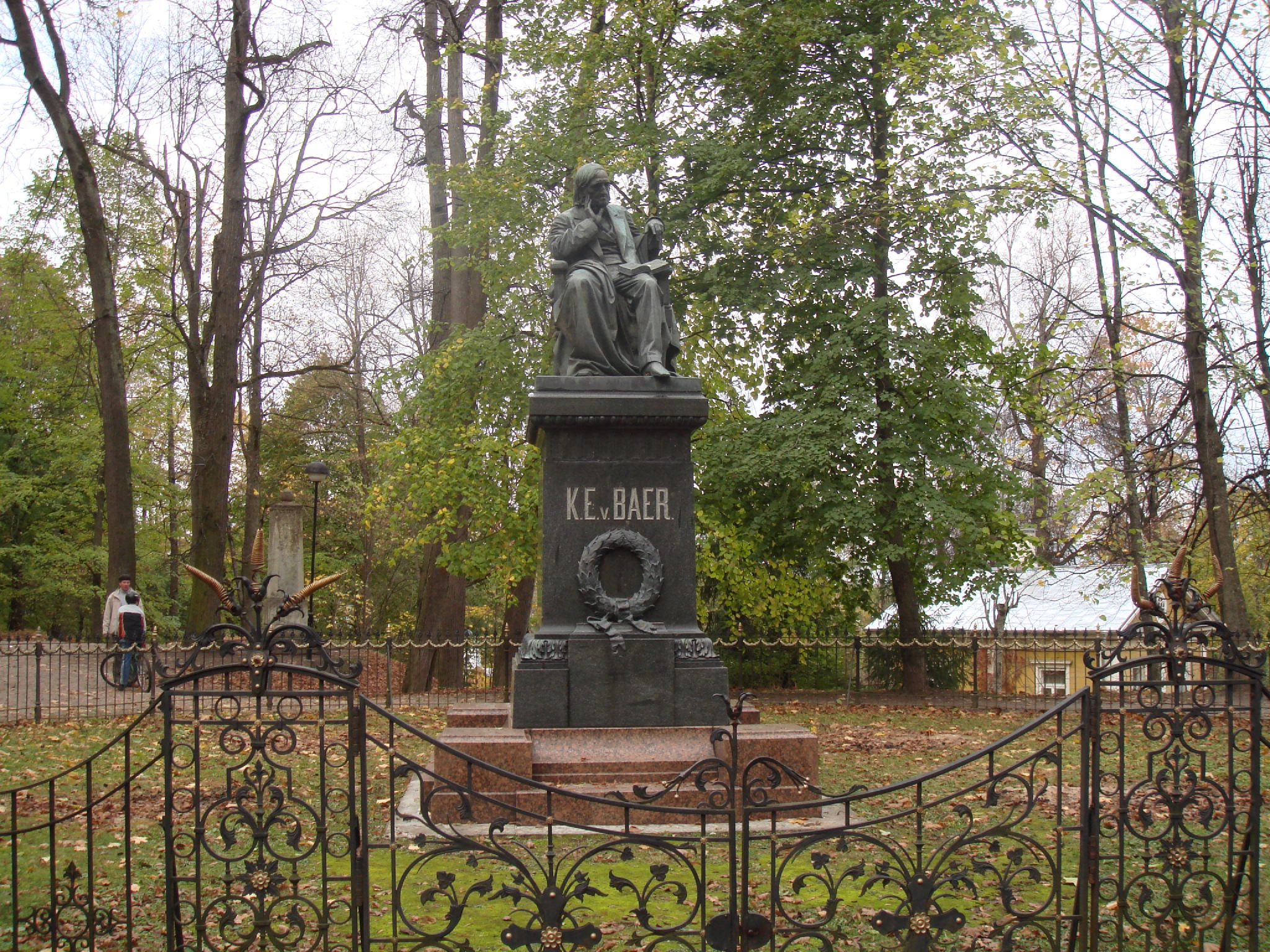 Monument in memory of Karl Ernst von Baer (1792—1876) in Tartu by Russian sculptor Alexander Opekushin (1838—1923)